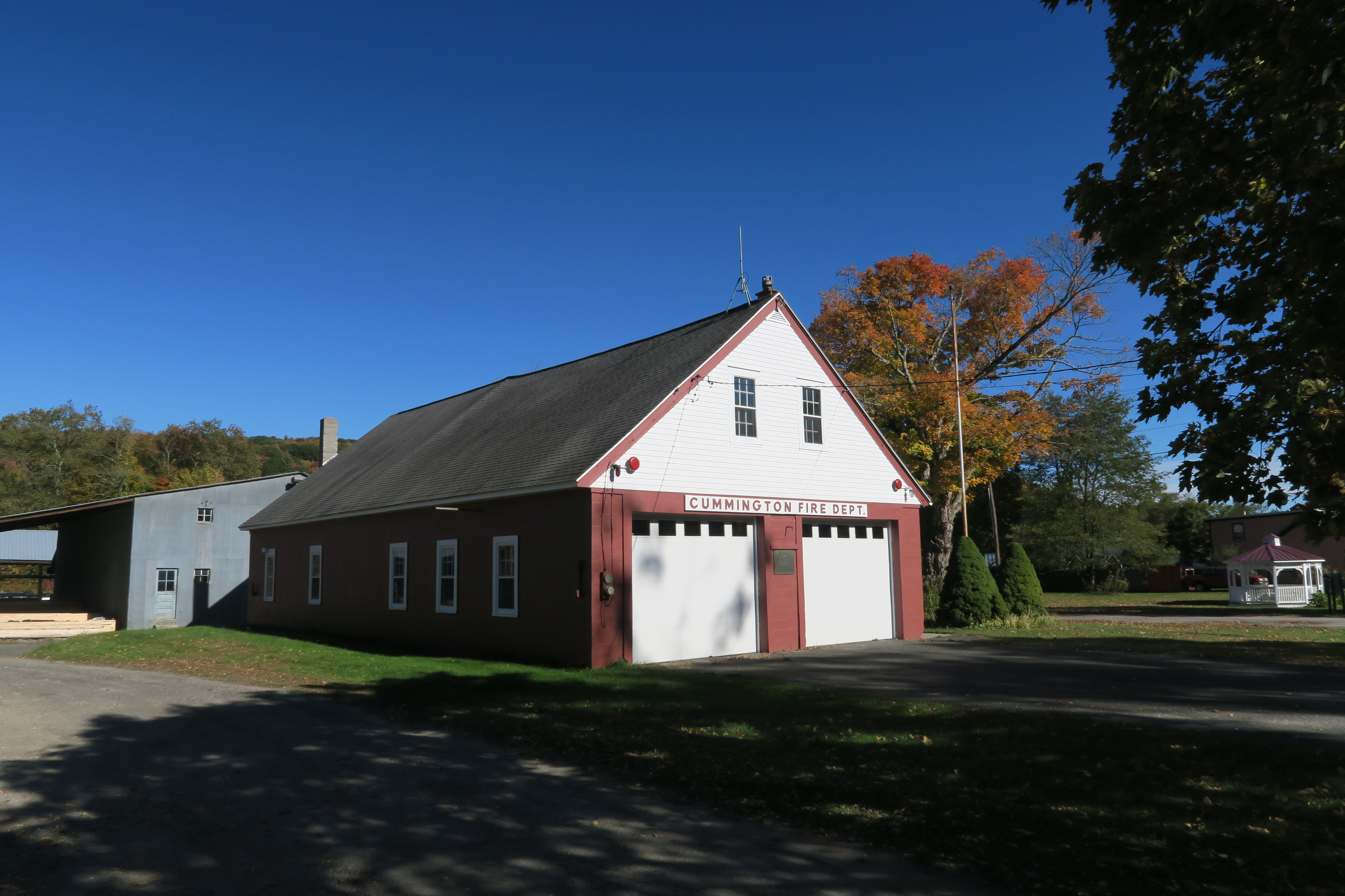 Fire Department, Cummington Massachusetts